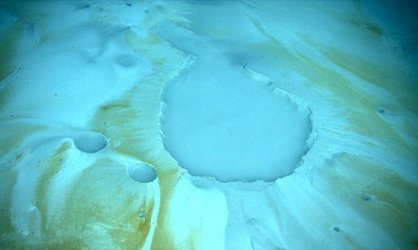 These craters mark the formation of brine pools, from which salt has seeped through the seafloor and encrusted the nearby substrate. Image courtesy of Lophelia II 2010 Expedition, NOAA-OER/BOEMRE (Link).